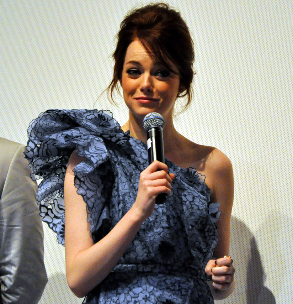 Emma Stone at the Toronto International Film Festival 2010.